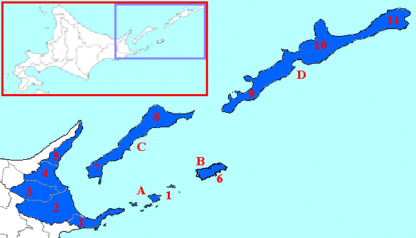 Administrative division of Nemuro subprefecture. 1 Nemuro 2 Notsuke Shibetsu 3 Nakashibetsu 4 Shibetsu 5 Menashi 6 Shikotan Kunashir 7 Tomari 8 Ruyobetsu 9 Etorohu 10 Shyna 11 Shibetoro A: Khabomai B: Shikotan C: Kunashir D: Iturup